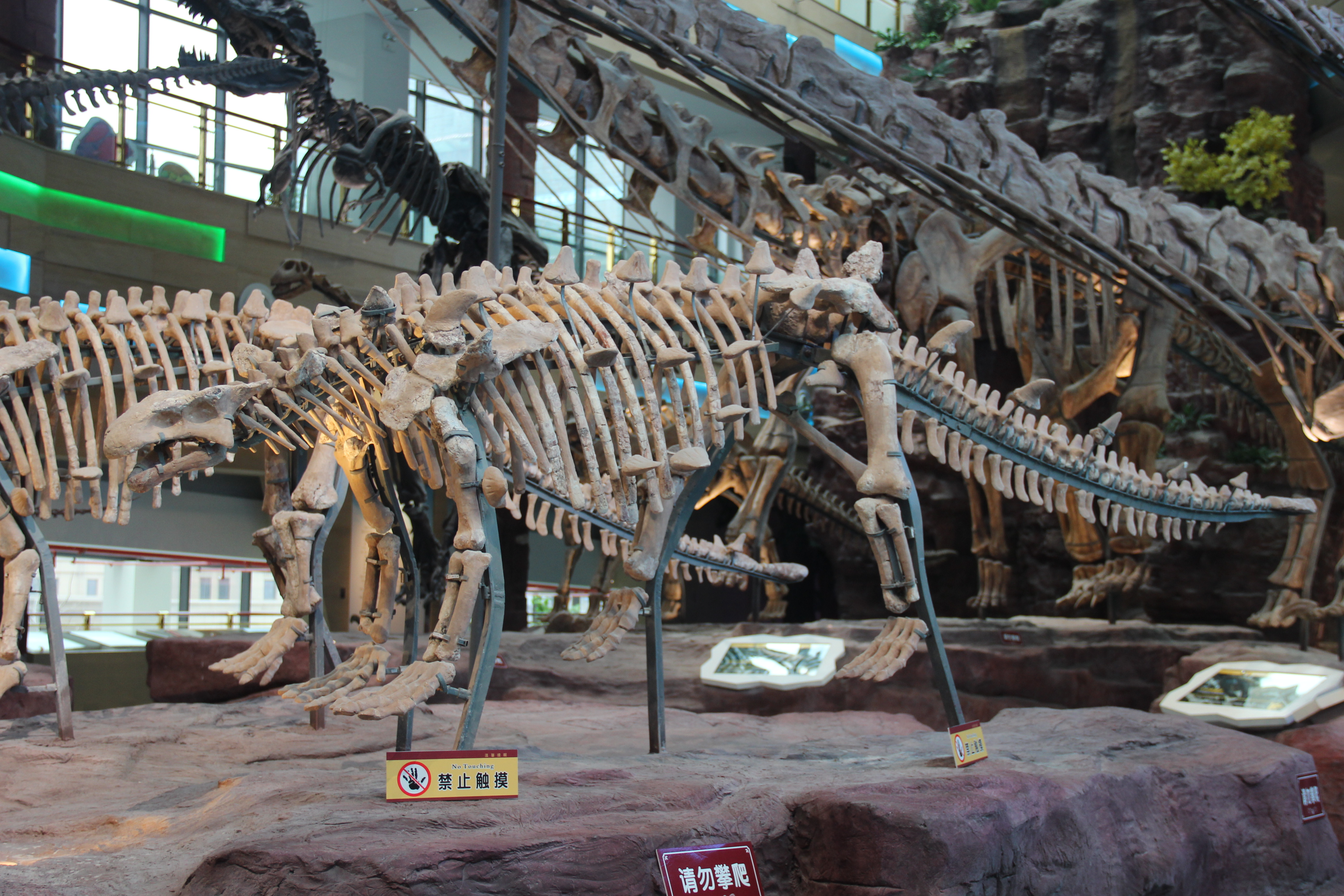 Anhui Geological Museum, Hefei. Complete indexed photo collection at .